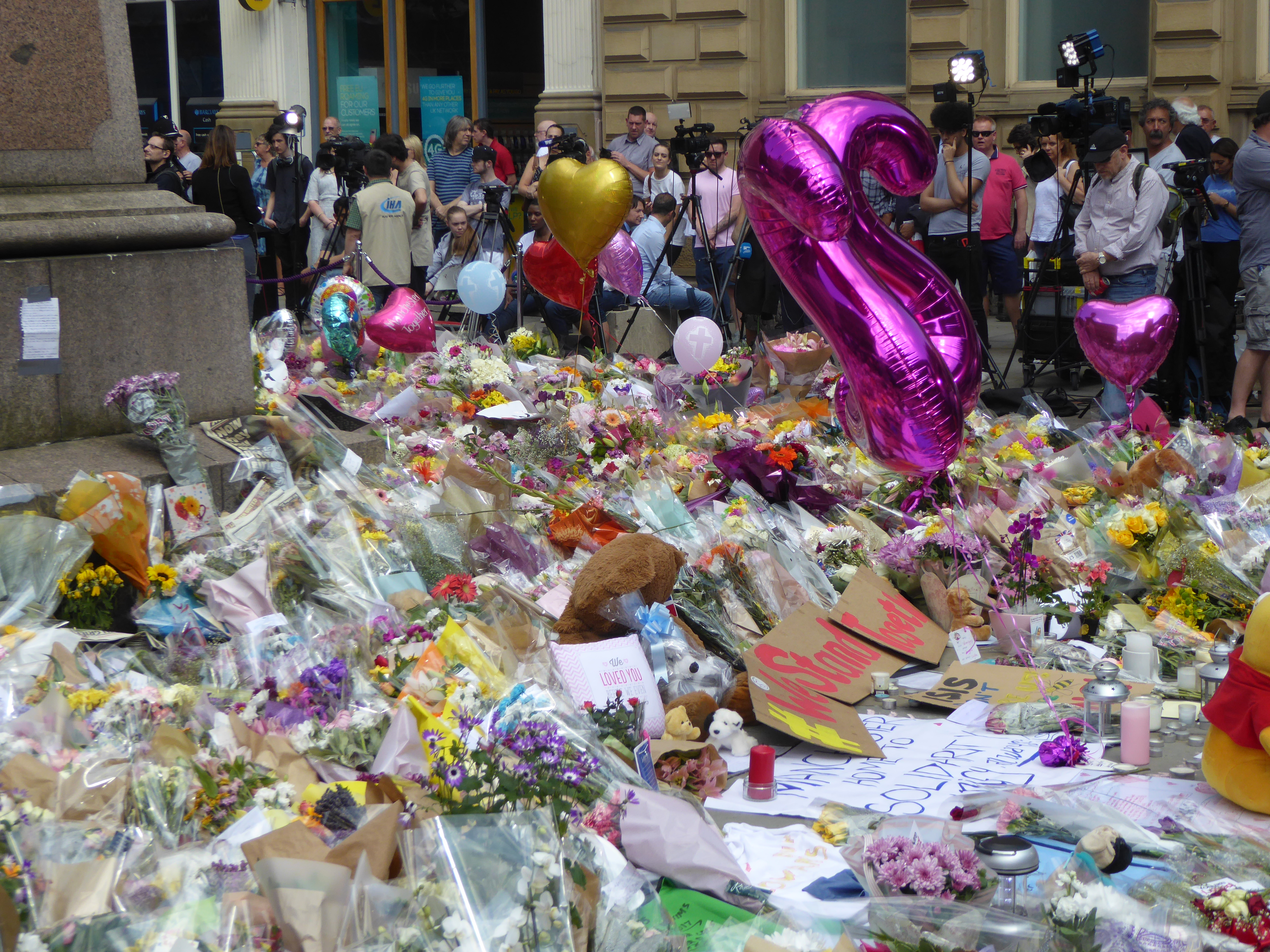 Tributes and memorials at St Ann's Square,Manchester, England, re Manchester Arena bombing, May 2017